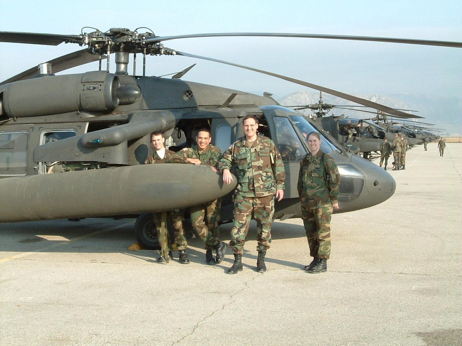 35th ID Liaison Officer, Mostar Base, Bosnia, with Aviators of the U.S. 1st Infantry Division April 5, 2003